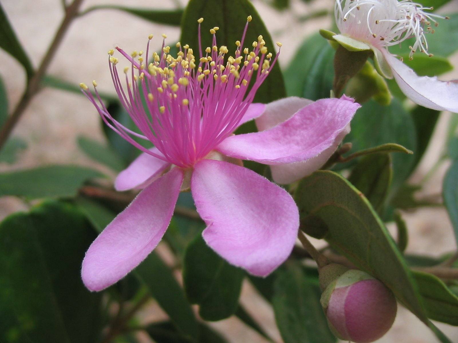 R. tomentosa flower